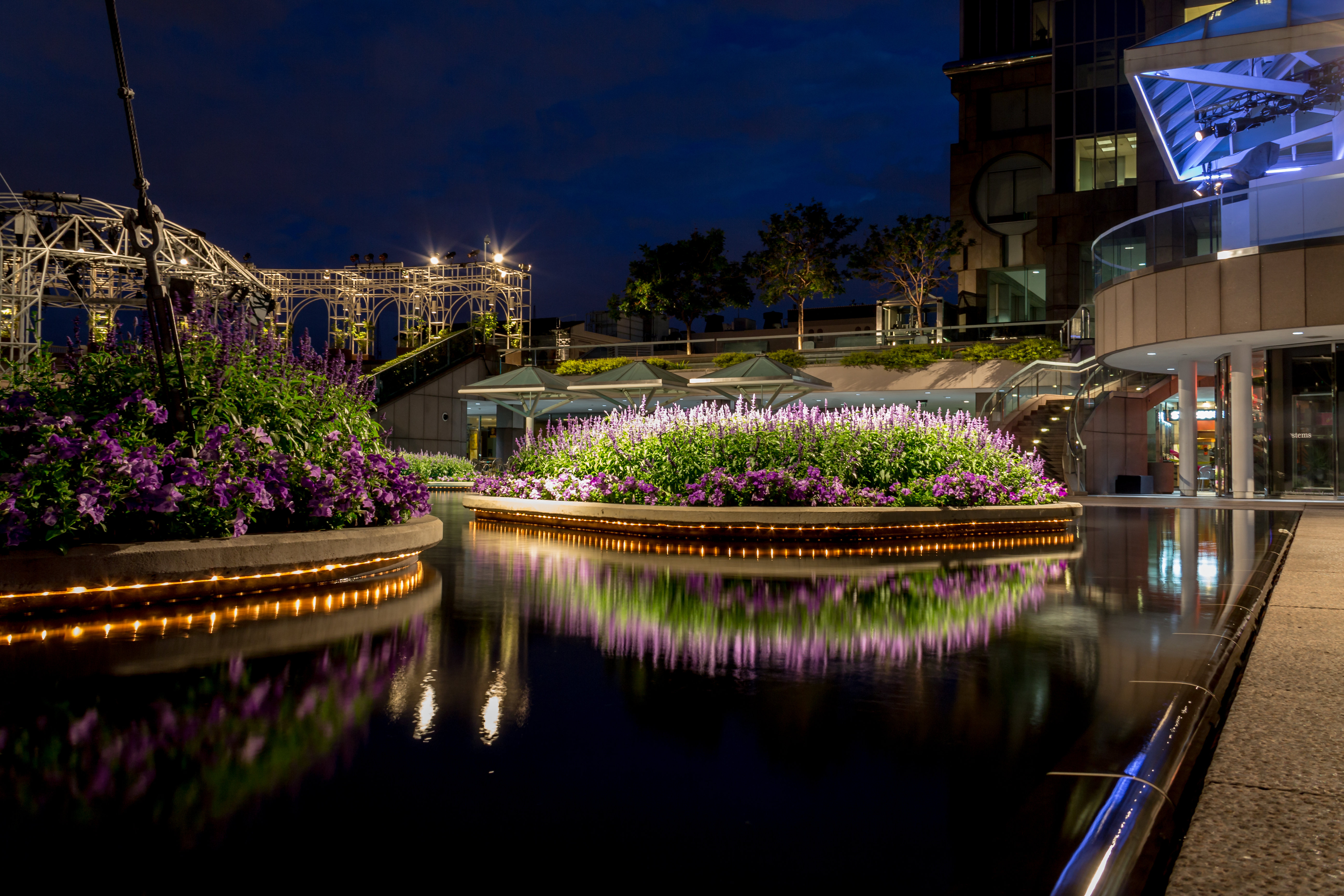 Fountain and amphitheater at California Plaza — on Bunker Hill in Downtown Los Angeles, California.